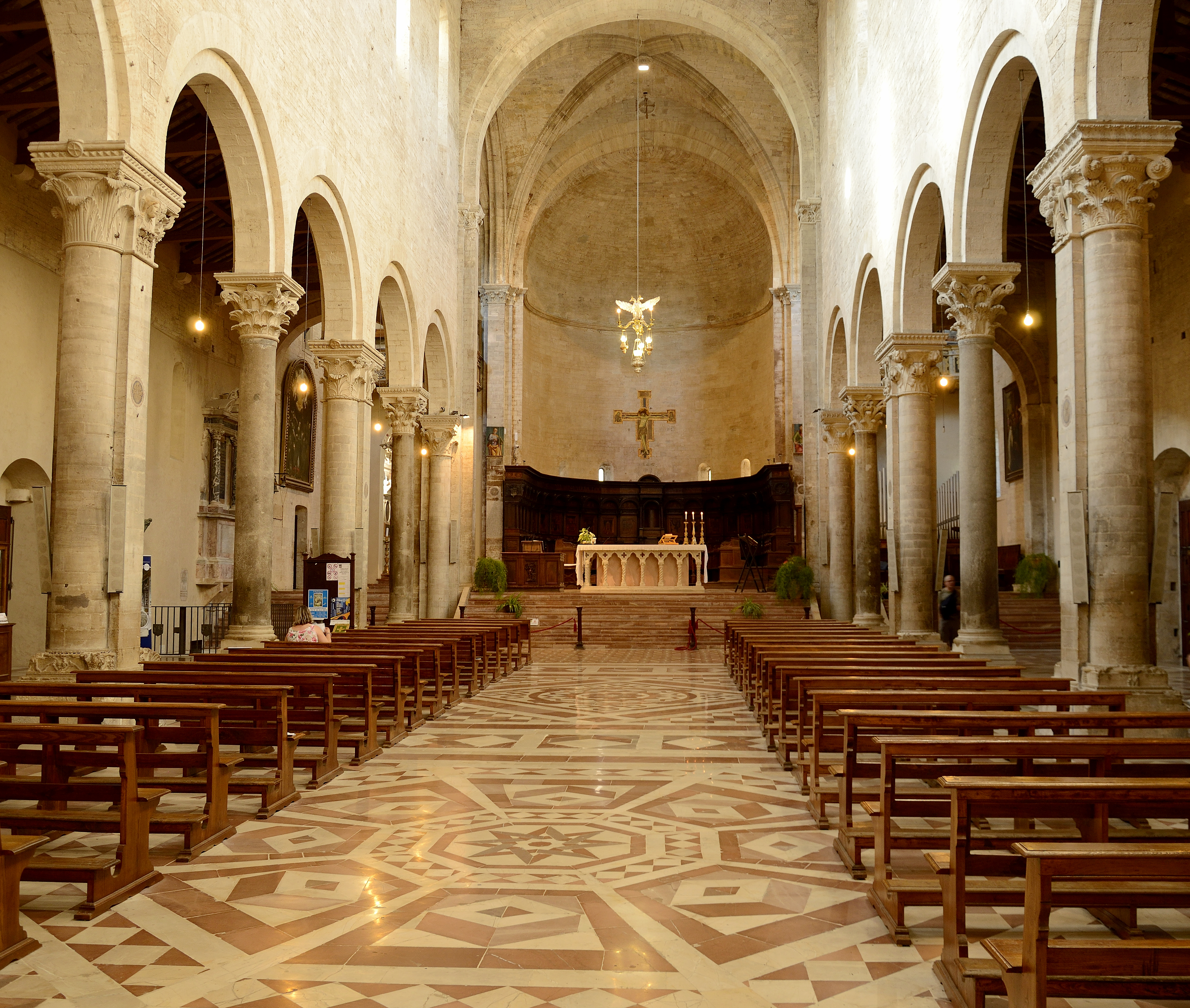 Concattedrale della Santissima Annunziata - Interno